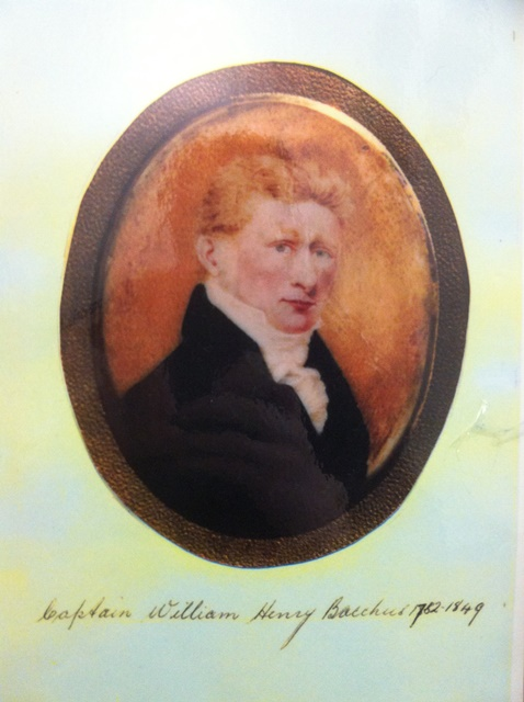 Painting of Captain William Bacchus